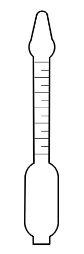 Schematic of a butyrometer used in dairies to apply the method of Gerber for determining the fat content in milk.